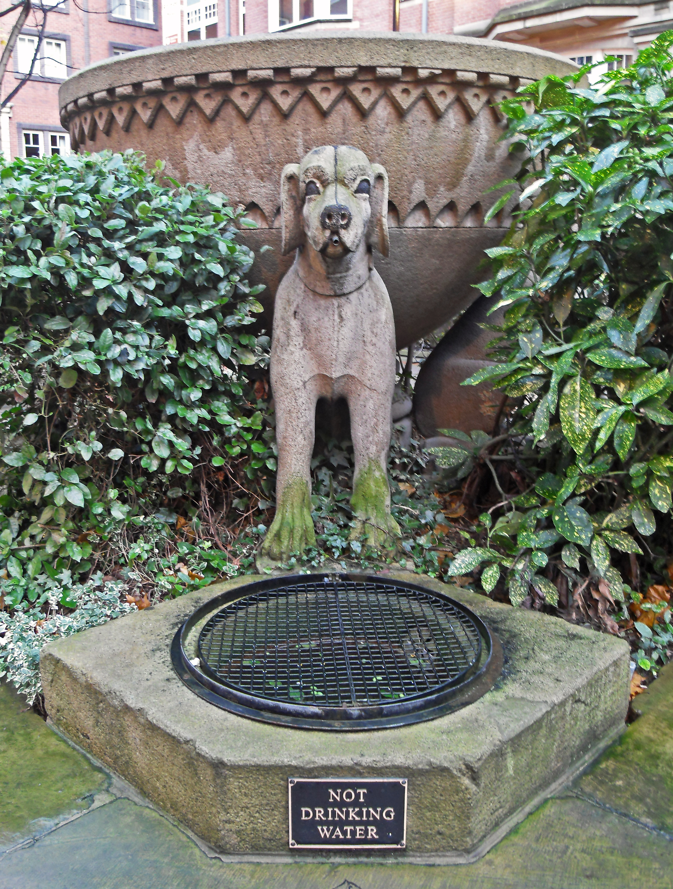 Talbot Hounds Fountain in Trevelyan Square, Leeds. Originally at the Castle Carr estate west of Halifax.